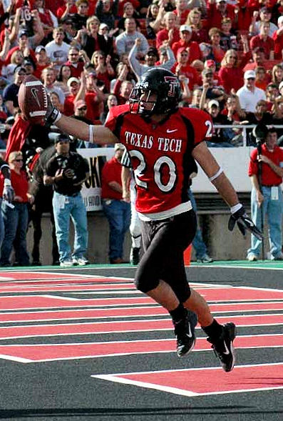 Danny Amendola. From Texas Tech Red Raiders vs Baylor Bears in 2004.